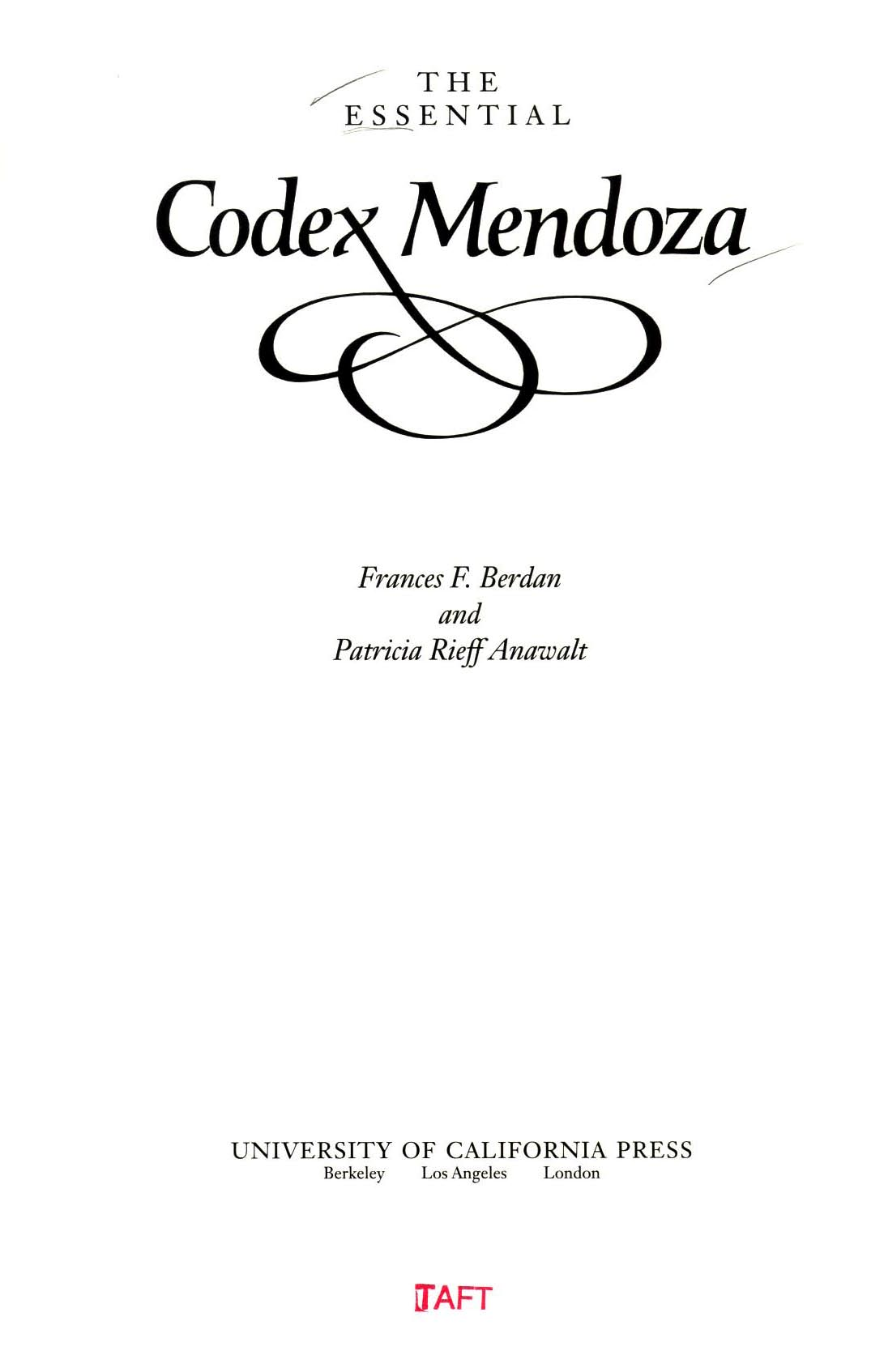 The title page of Codex Mendoza.